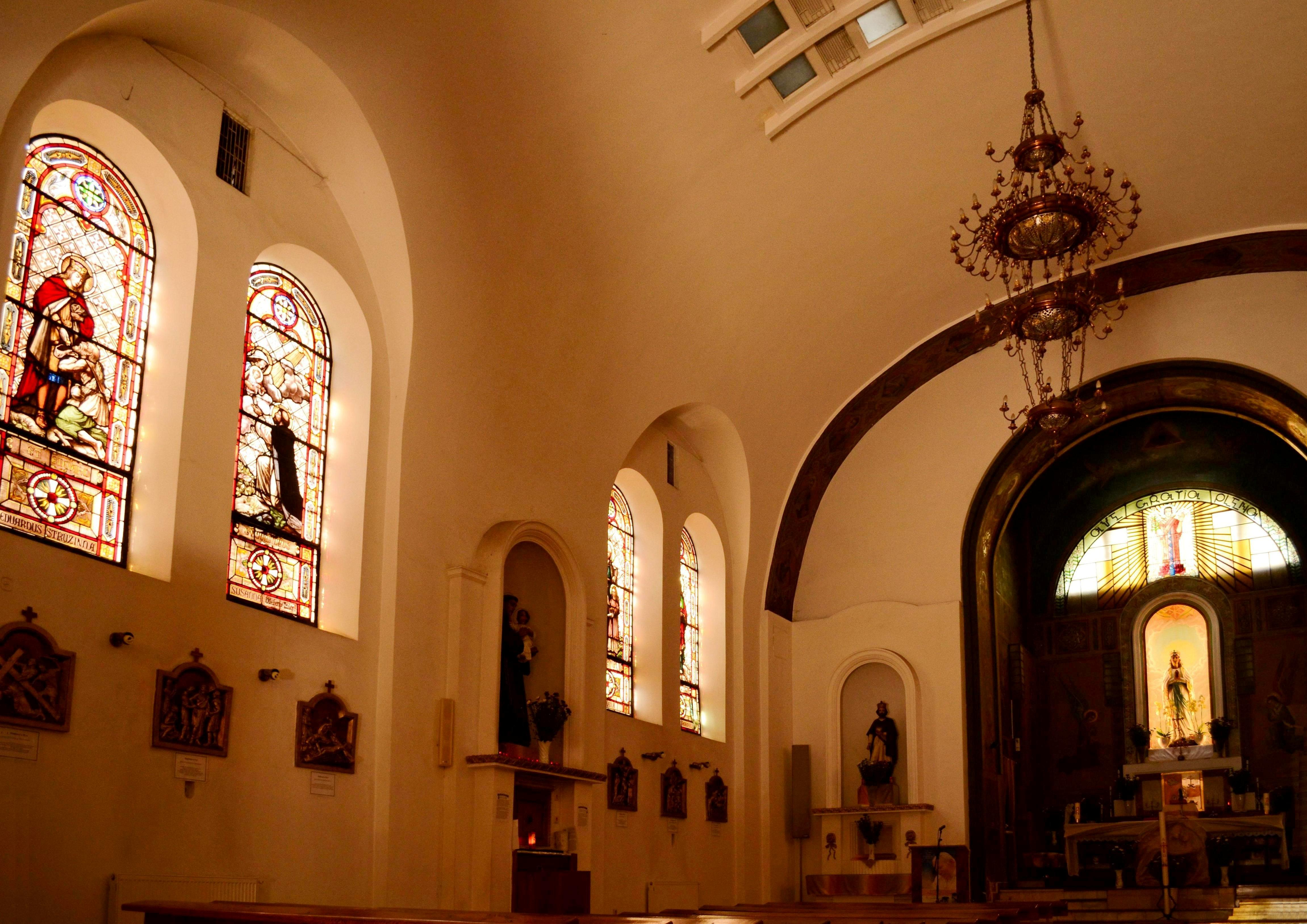 Church of Baratia, Bucharest, interior